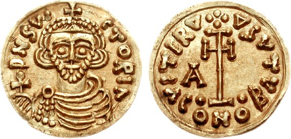 Lombards, Beneventum (nowdays Benevento. Arichis II. 758-787. AV Tremissis (1.26 g, 6h). Class 2, 765-774. DNS VI CTORIΛ, crowned facing bust, holding globus cruciger VITIRΔ ΔGVTV, cross potent; four pellets above, pellets flanking base, A to left; CONOB. Oddy 435 var. (wedges above head); CNI XVIII 15 (Arichis I); cf. BMC Vandals 8; MEC 1, 1095. Superb EF.